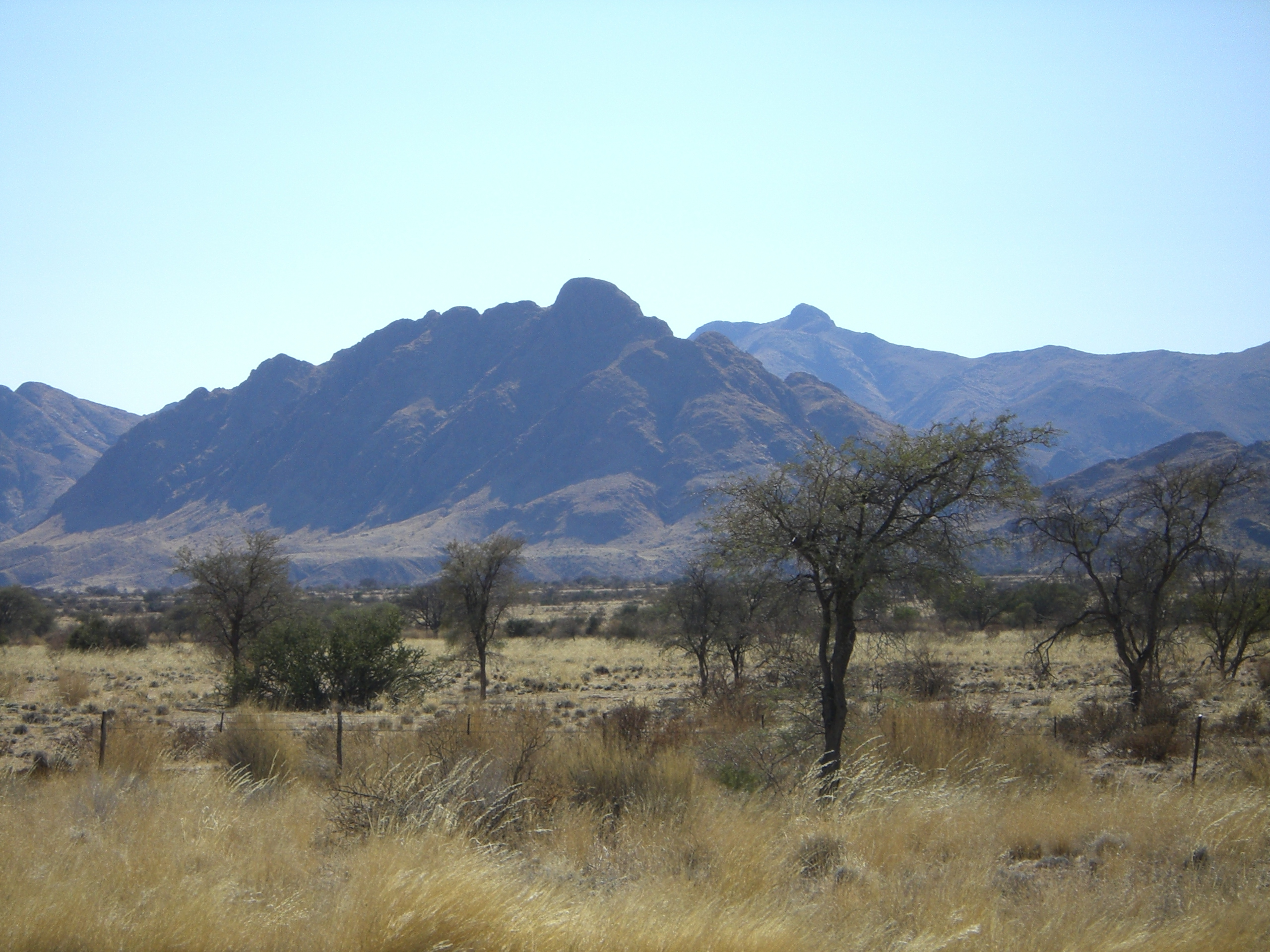 Great Karas Mountains in the south of Namibia